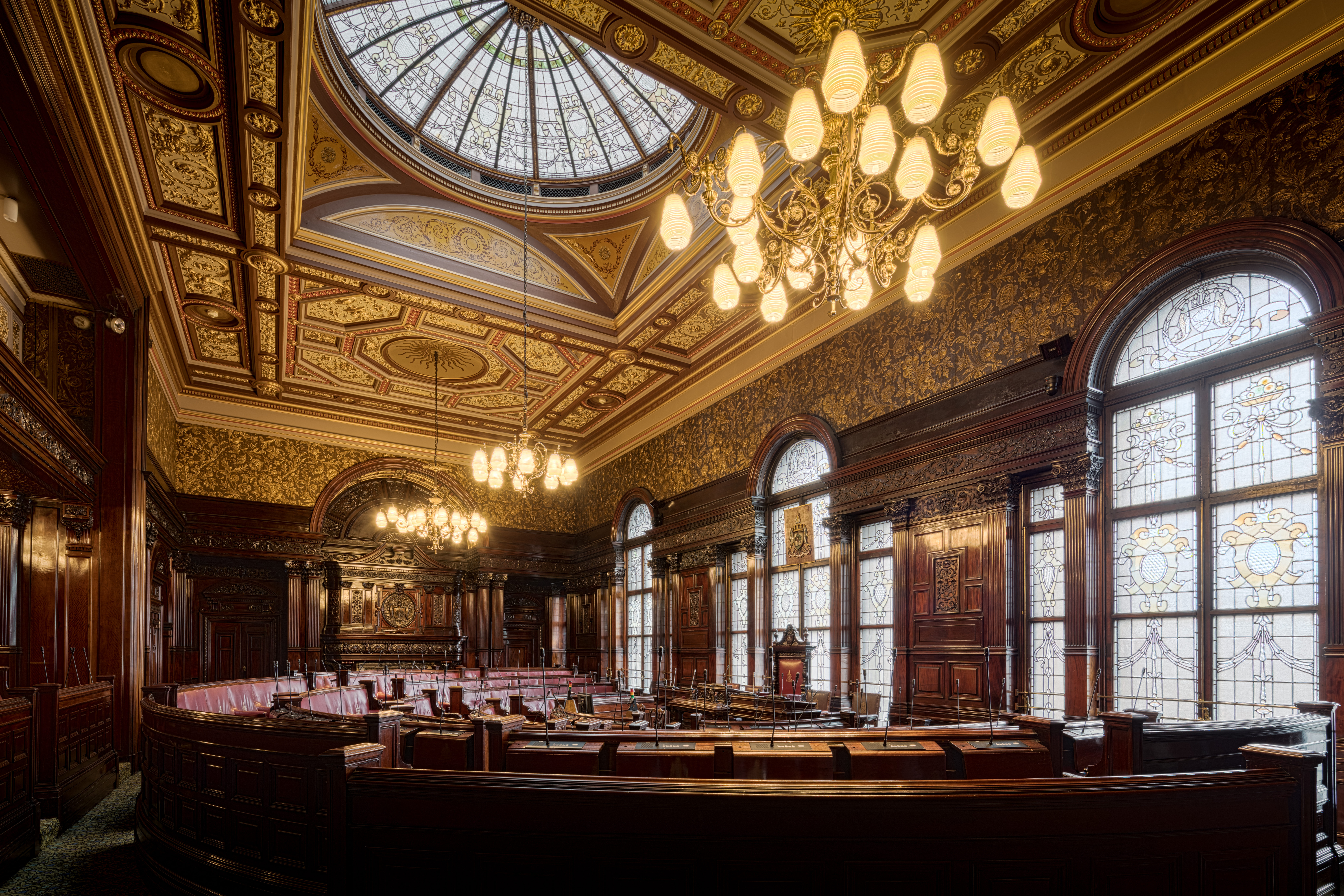 Here is an hdr photograph taken from the council chamber inside Glasgow City Chambers. Located in Glasgow, Scotland, UK. (Taken with kind permission of the administration).